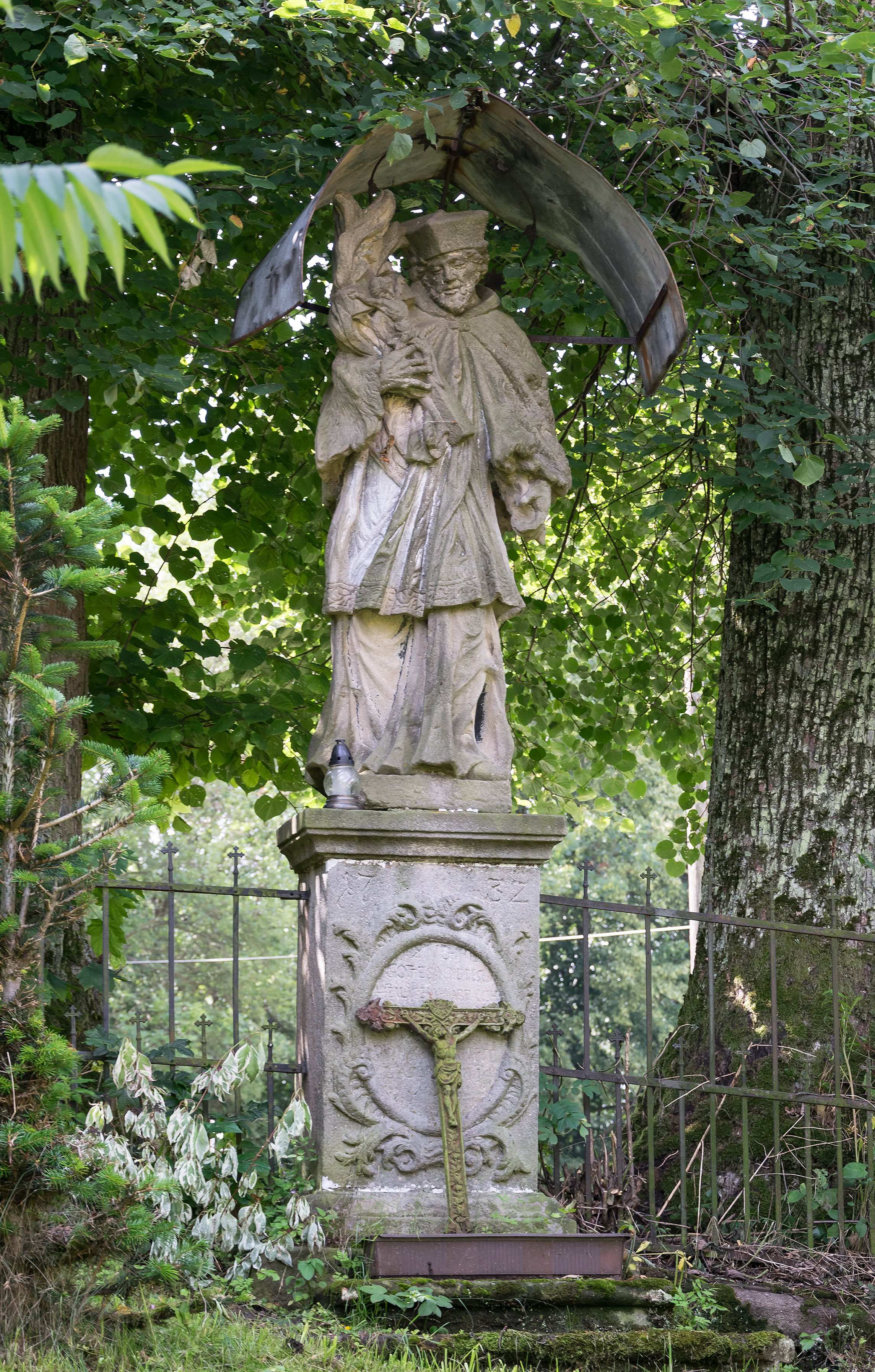 Sculpture of John of Nepomuk in Droszków